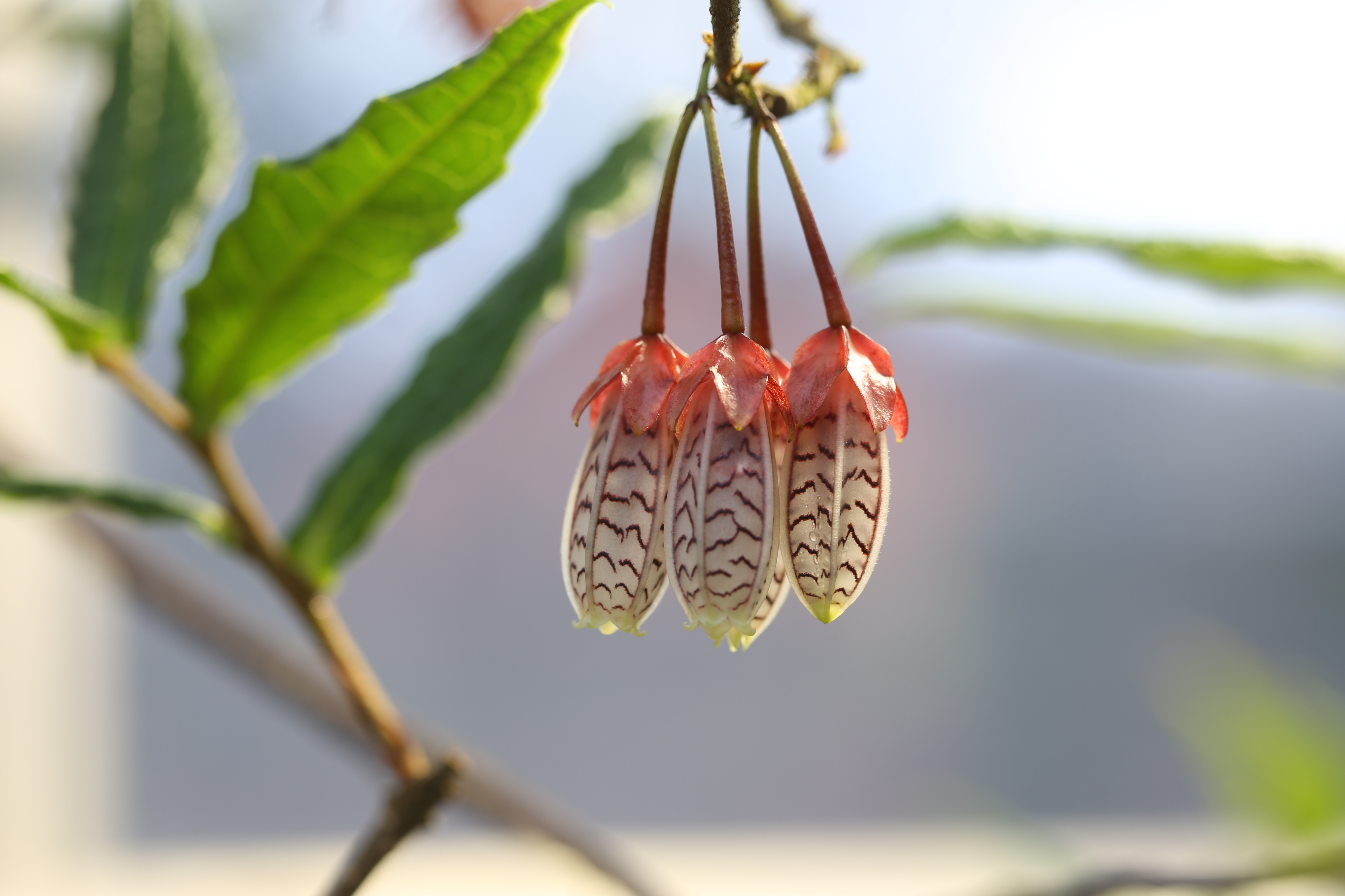 Agapetes incurvata at Gothenburg Botanical Garden 2015. Plant id: 2007-2082 p G Bonn